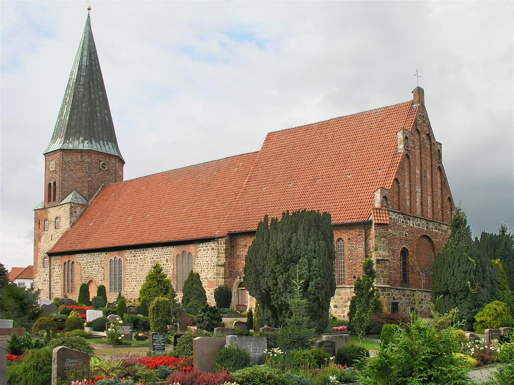 Dorum, Lower Saxony, Germany: Church St. Urbanus, photo 2006